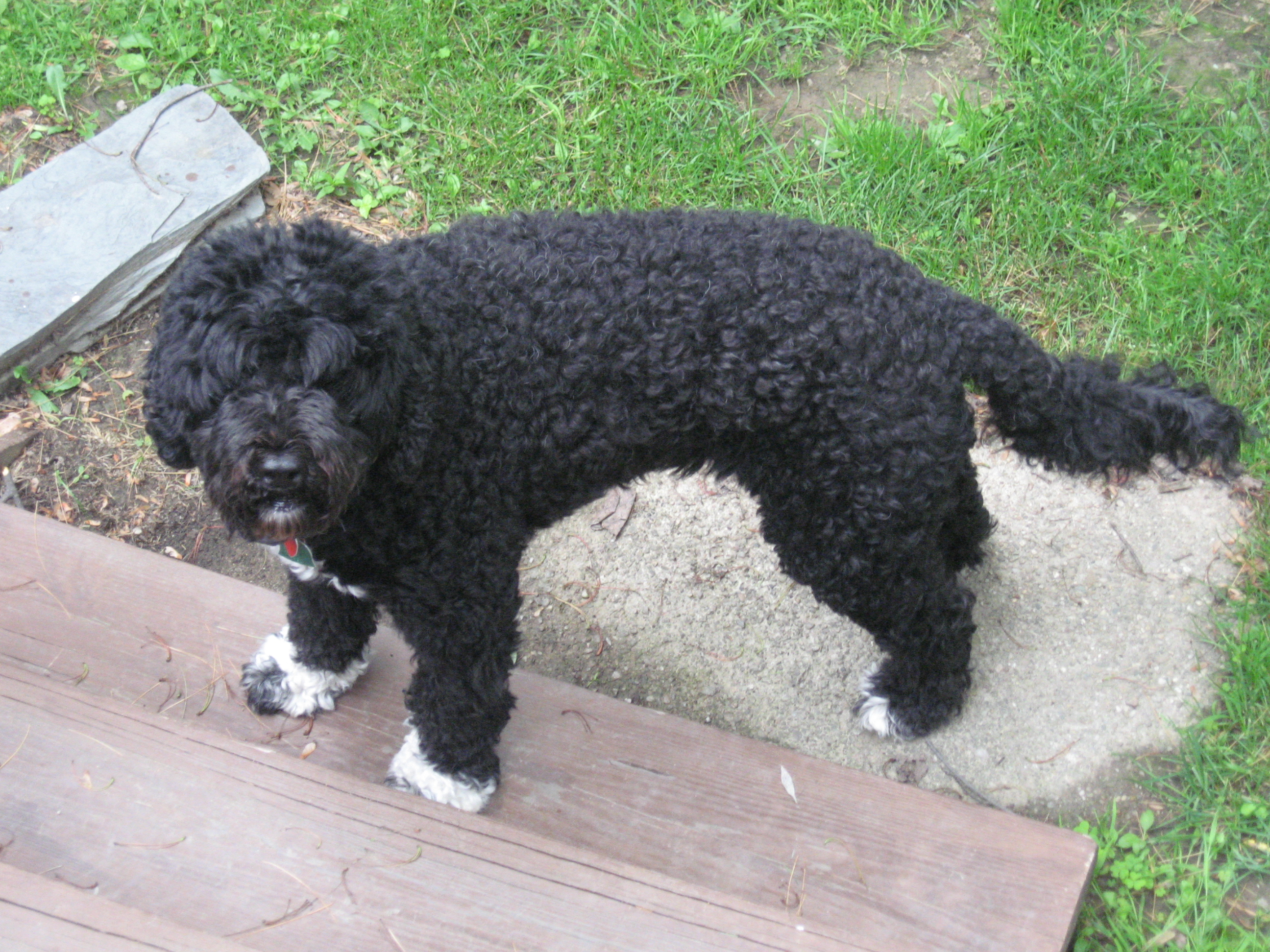 Portuguese Water Dog Bailey.